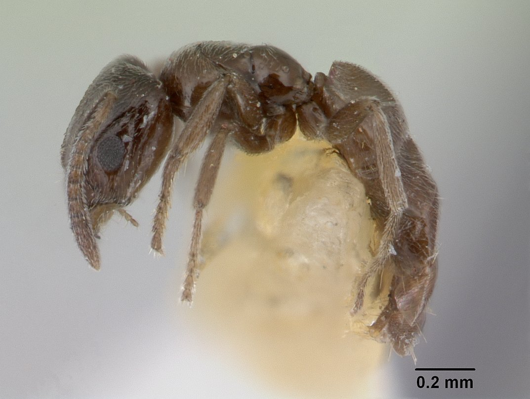 Profile view of ant Agraulomyrmex meridionalis specimen casent0178494.